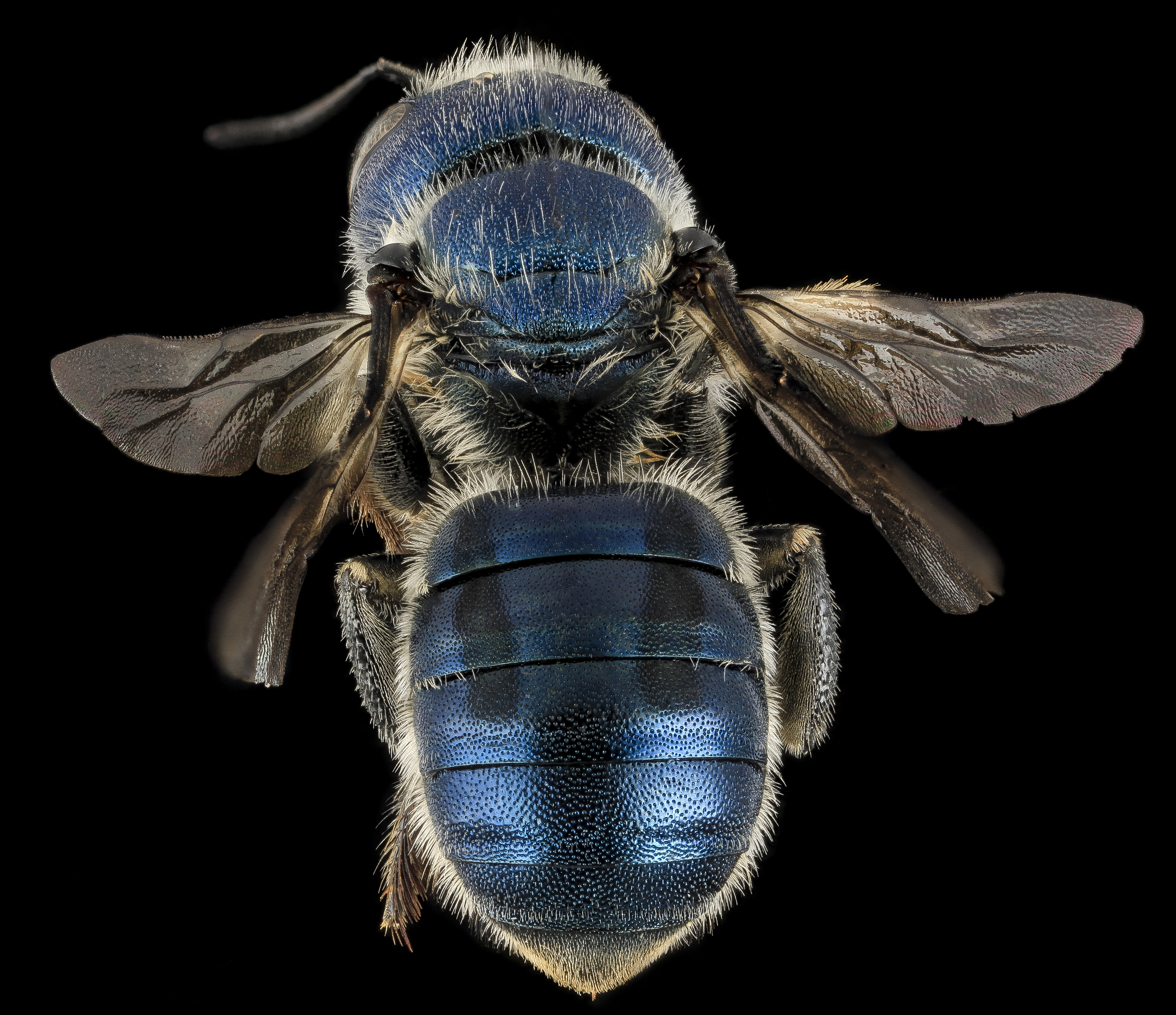 A thistle hugging giant of an Osmia..., who can't but love thistles and the several bee species that depend on them. Here is a specialist that depends on pollen from our native thistle plants to provision the cells of its young. Too often our native thistles also are taken out when people spray for introduced bull and Canada Thistles. Collected by Tim McMahon and the first state record for Maryland, Photographed by Aaman Mengis. Canon Mark II 5D, Zerene Stacker, Photographer: Sam Droege, 65mm Canon MP-E 1-5X macro lens, Twin Macro Flash, F5.0, ISO 100, Shutter Speed 200